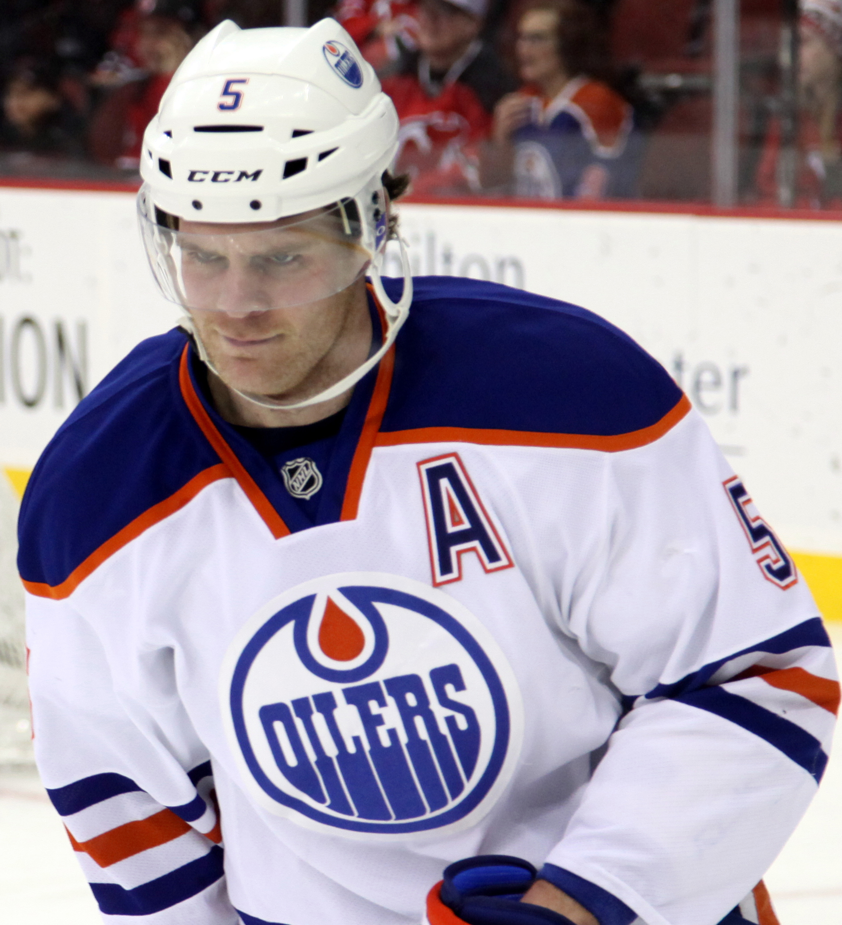 Fayne in February 2015.